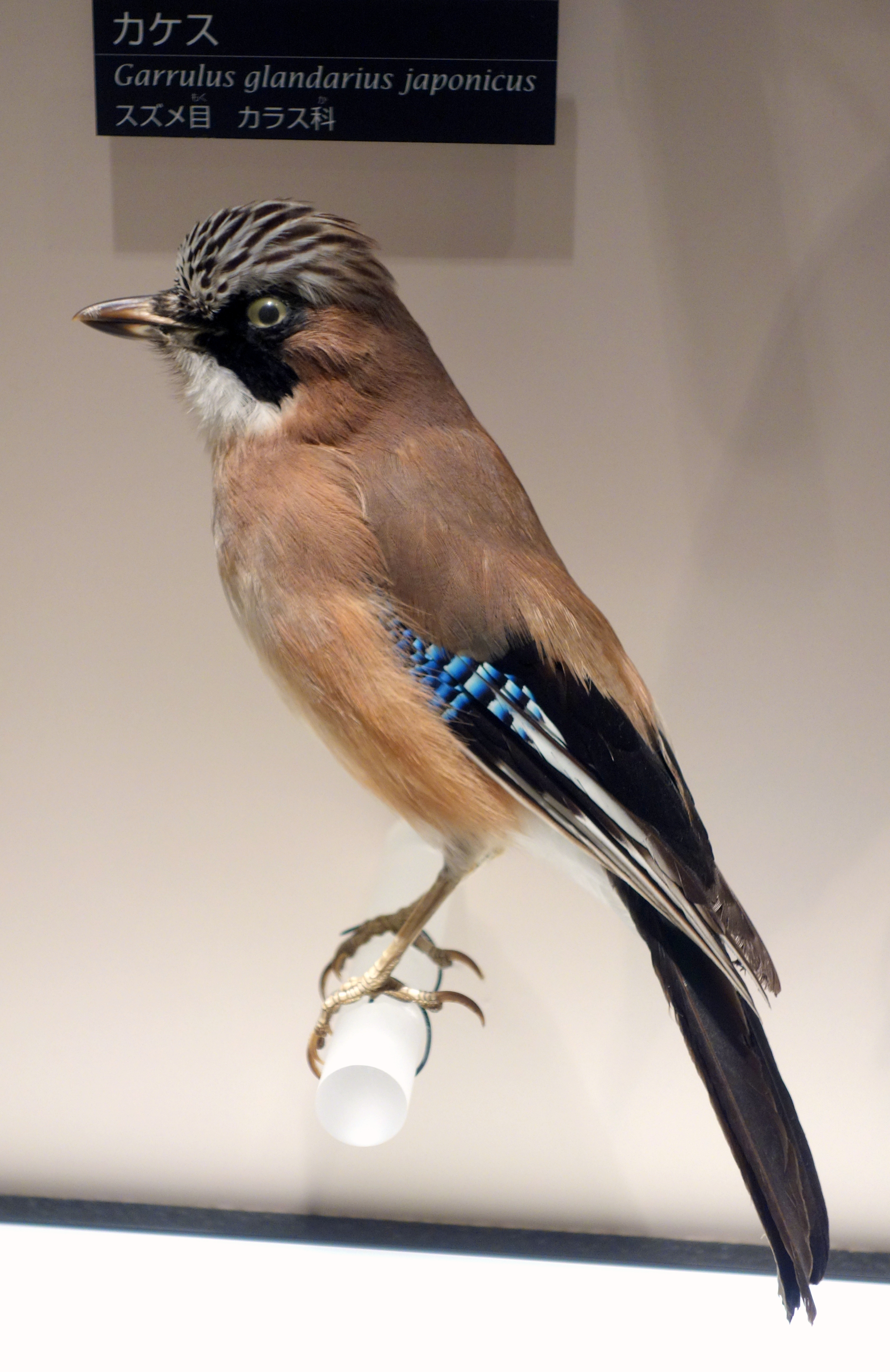 Exhibit in the National Museum of Nature and Science, Tokyo, Japan.